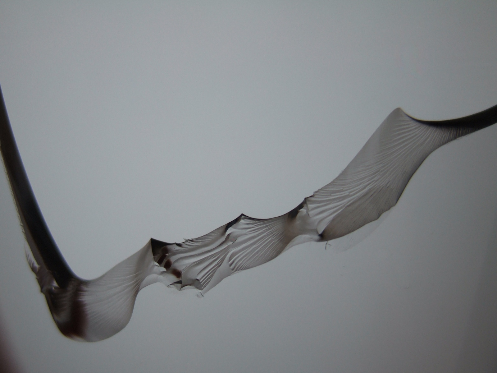 A closeup of the fractured edge of a broken drinking glass.